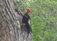 A Magellanic Woodpecker (Campephilus magellanicus) near Ushuaia, Argentina, March 2005. I took this picture myself while hiking through Tierra del Fuego National Park. (c) Mirko Raner